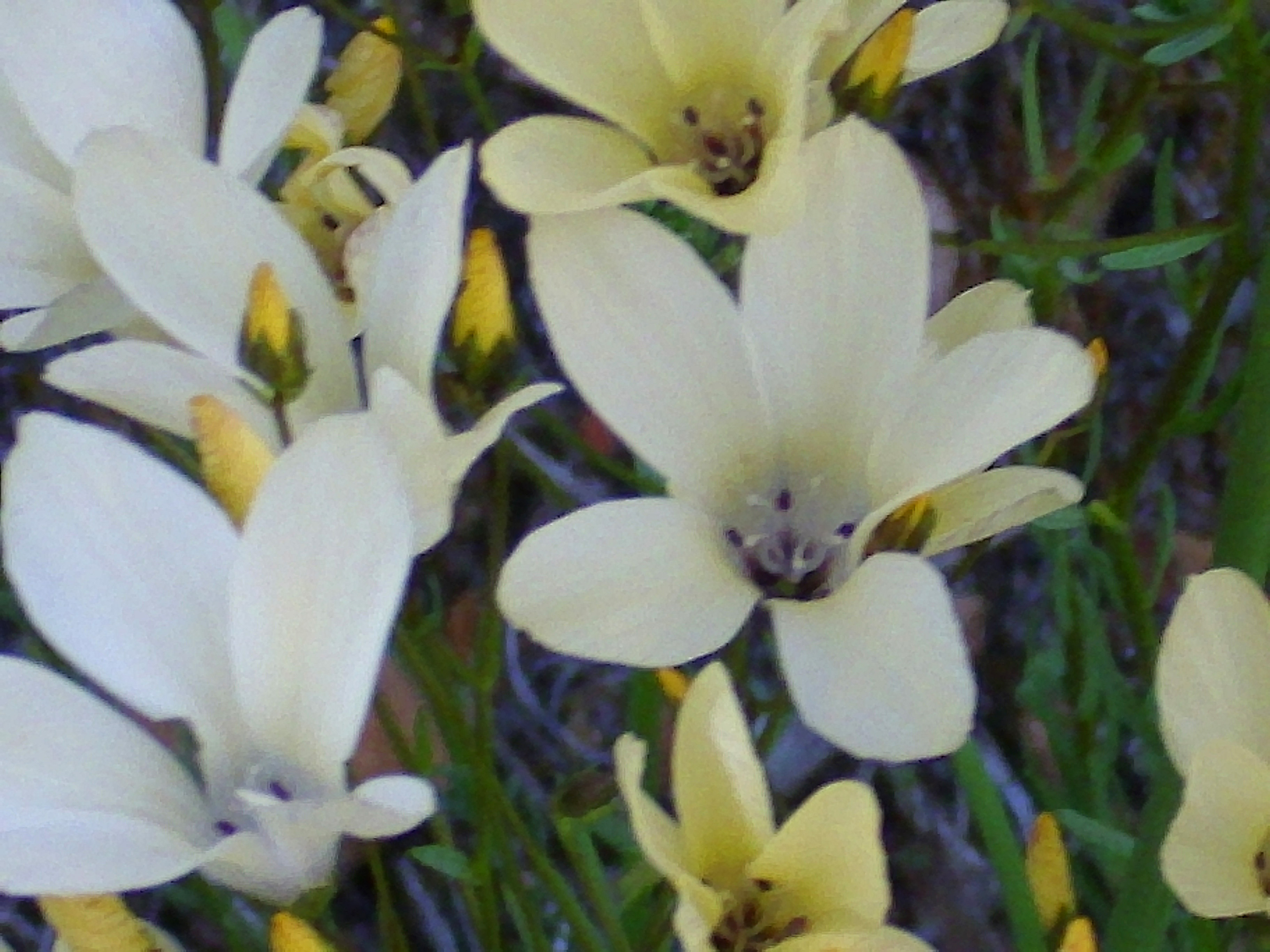 Linum suffruticosum close up, Sierra Madrona, Spain